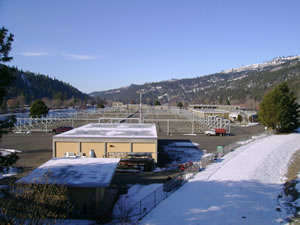 A view of Dworshak National Fish Hatchery in the winter. Credit: USFWS